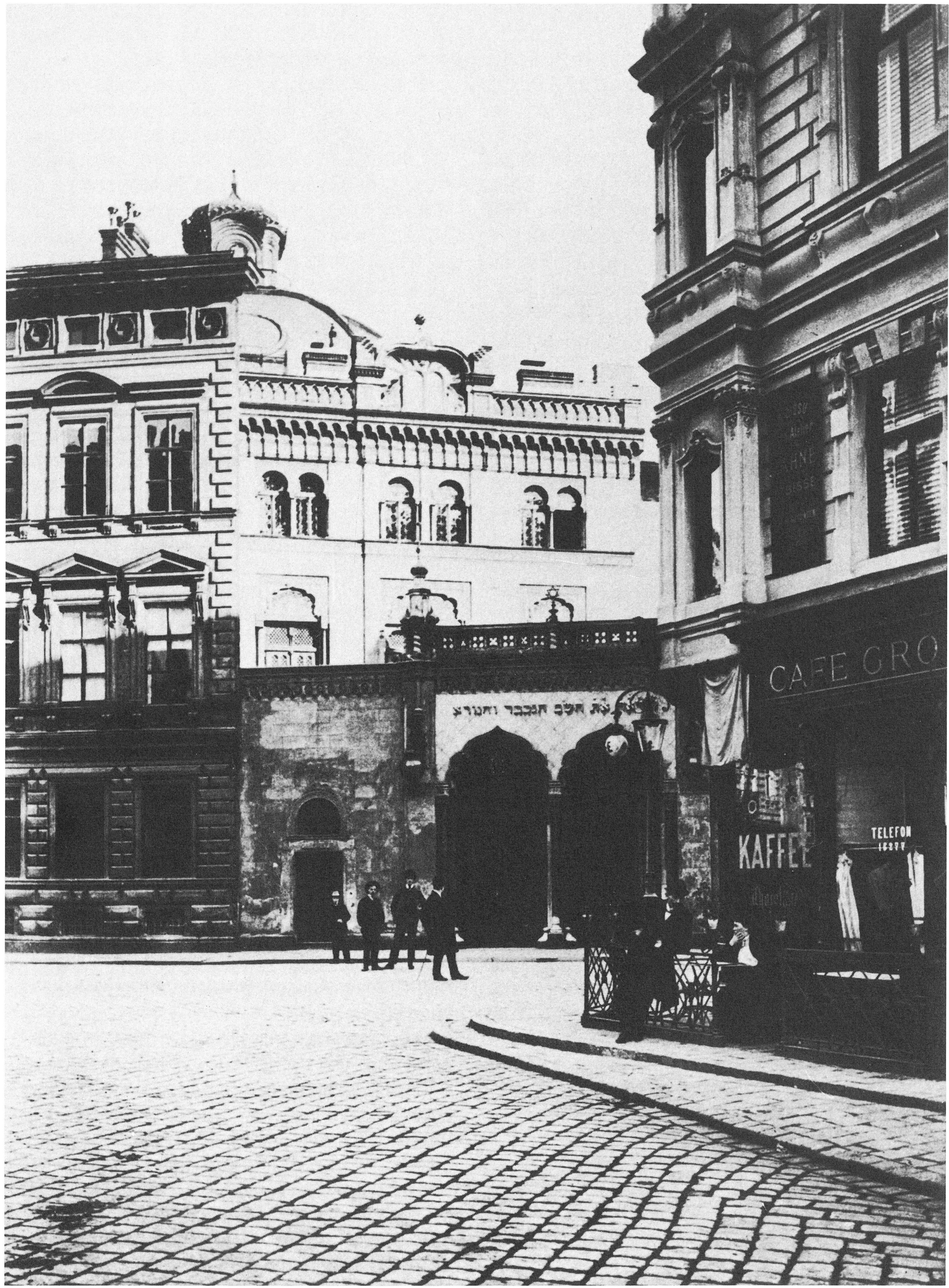 Photo of the Türkischer Tempel in Vienna.